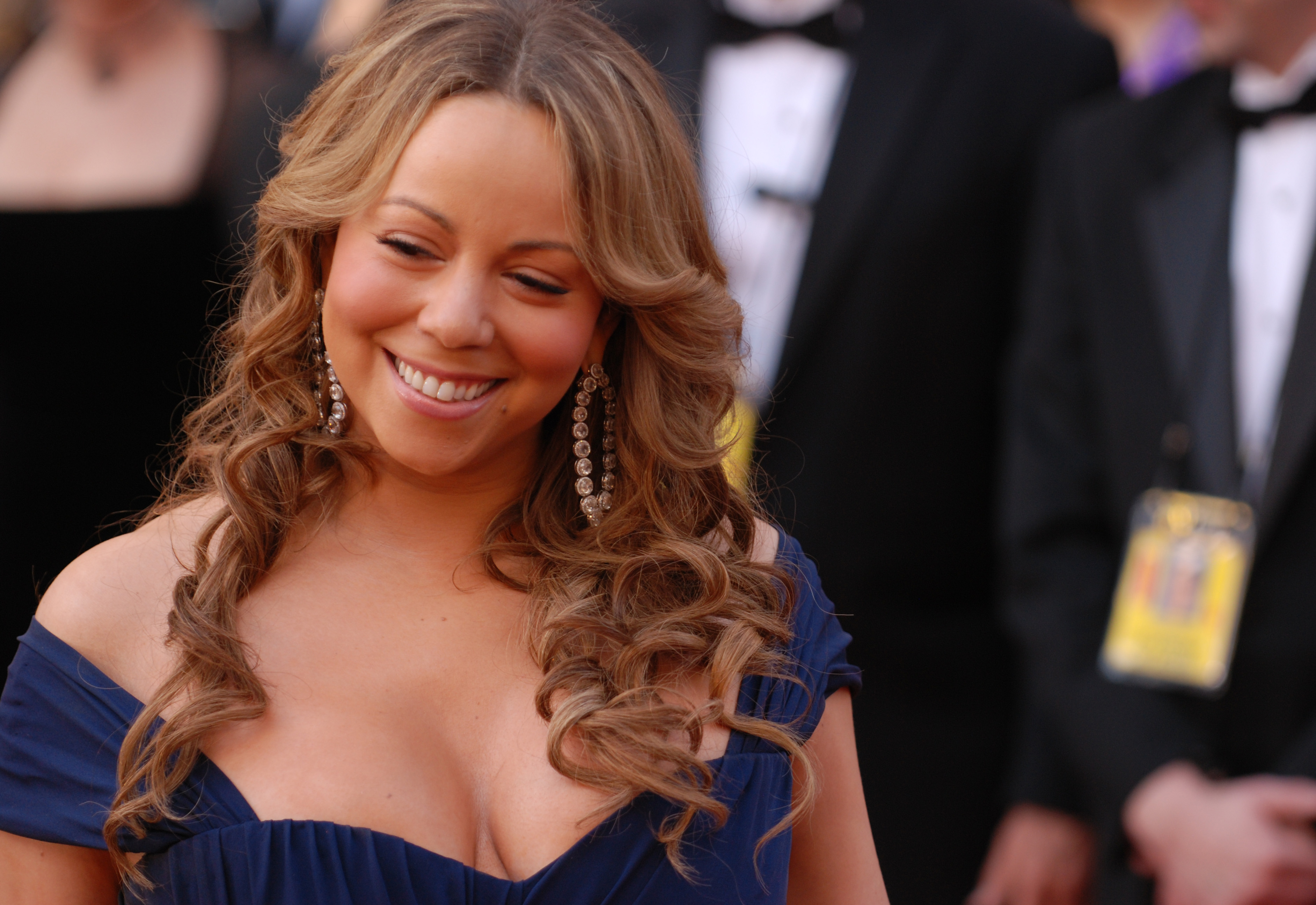 Mariah Carey during red carpet interviews at the 82nd Academy Awards.